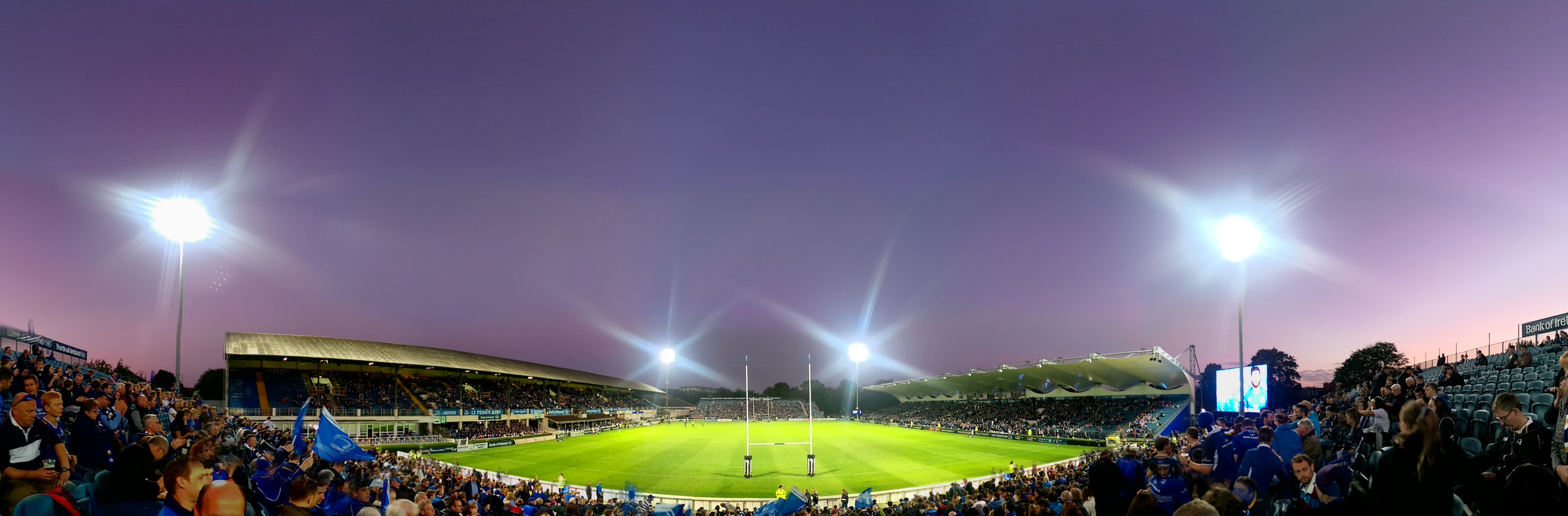 Panoramic photo inside the RDS